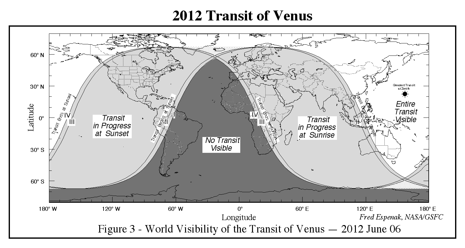 Visibility of the June 6, 2012 transit of Venus.